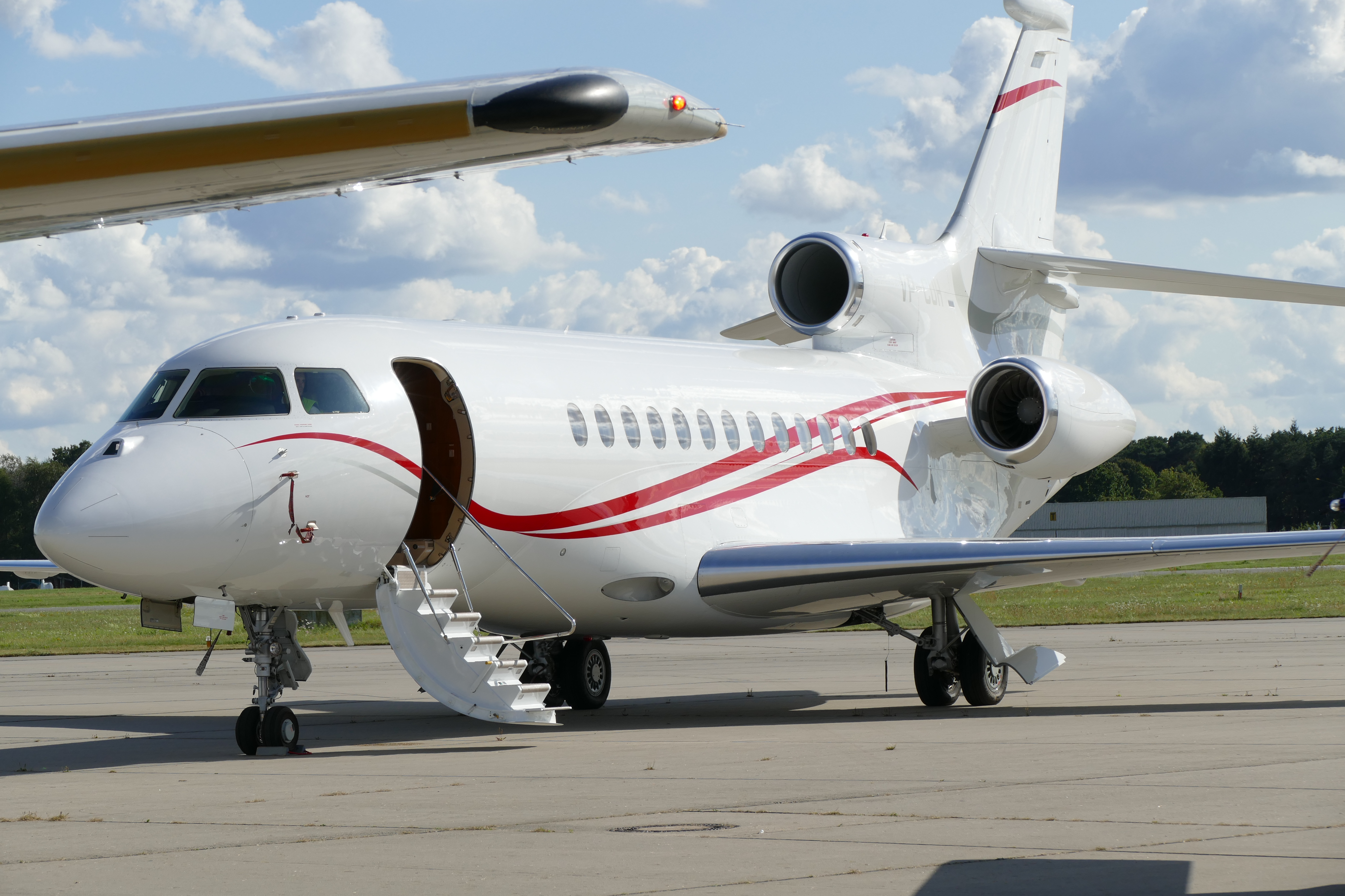 Lübeck Air´s Flacon 7x